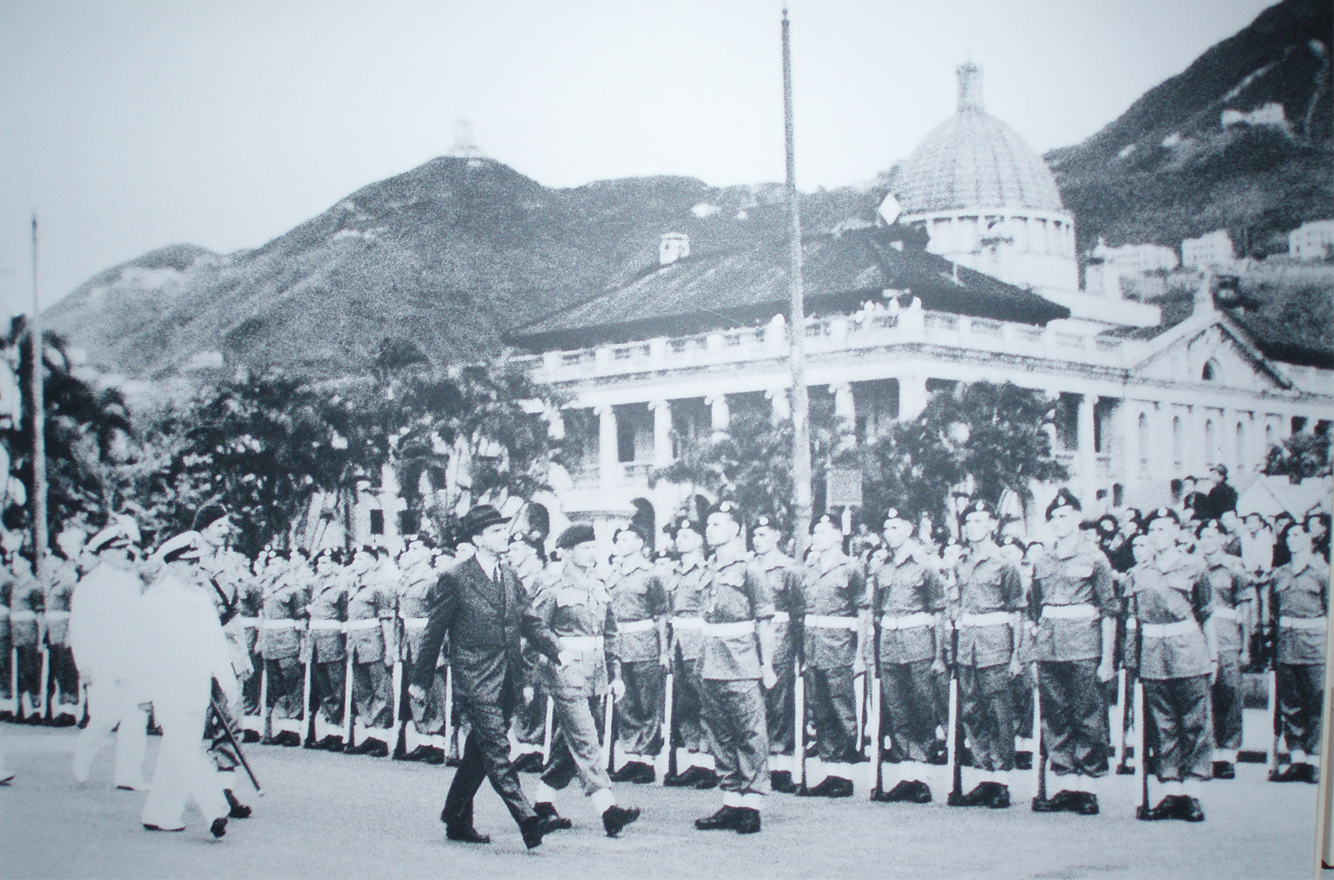 Sir Mark Young attended a ceremony on the first of May, 1946.